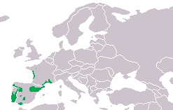 Distribution of Pelobates cultripes, based on Nöllert/Nöllert: "Die Amphibien Europas"